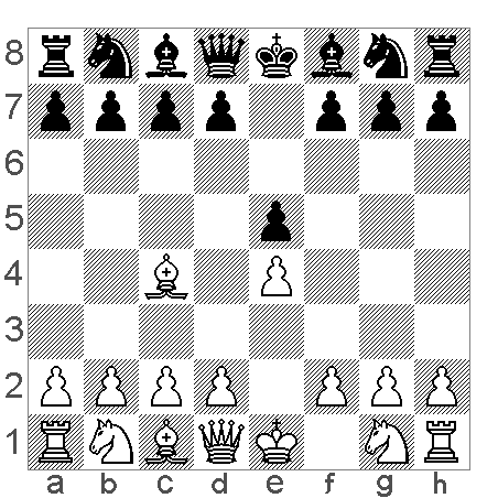 chess diagramm Bishop_game